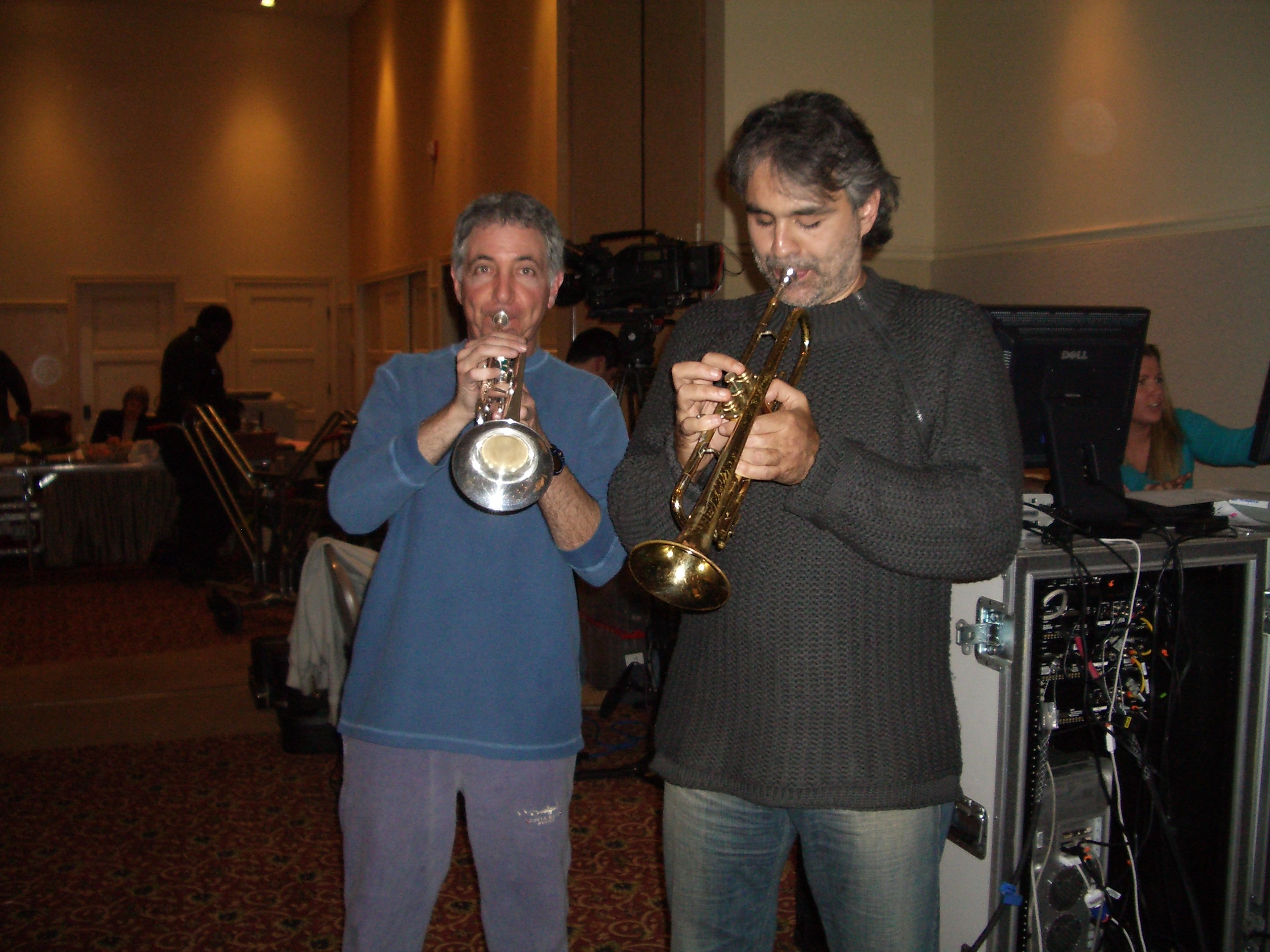 Photo taken of Randy Waldman and Andrea Bocelli playing trumpets during rehearsals for the live show and recording of Andrea Bocelli: Amore Under the Desert Sky. Taken at Lake Las Vegas Resort on December 7, 2005.